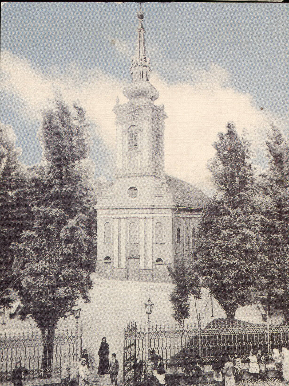 Serbian Orthodox church of the Dormition of the Mother of God in Zrenjanin in 1906